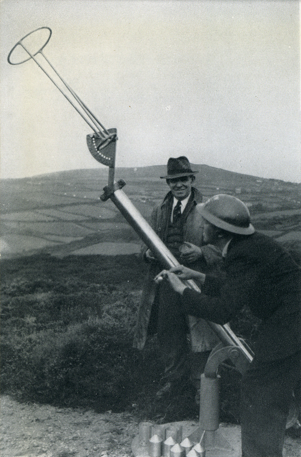 Holman Projector, a World War II-era British anti-aircraft weapon. Taken before trials began at Porthtowan, Cornwall.